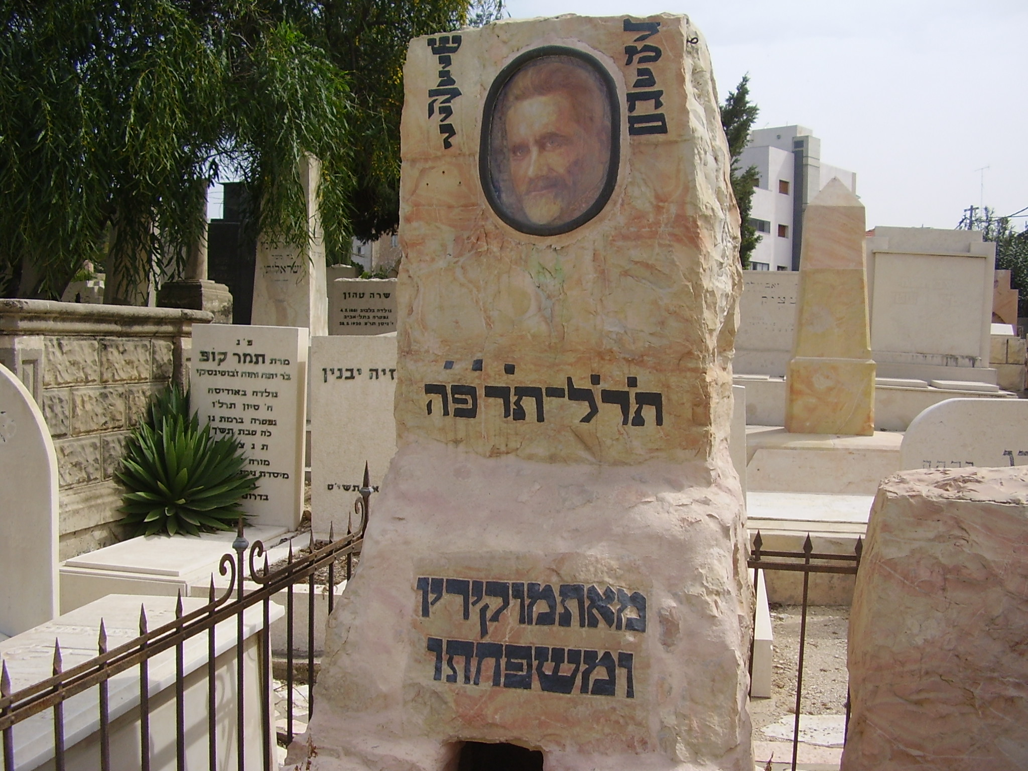 menachem sheinkin tomb in trumpeldor cemetery in tel aviv